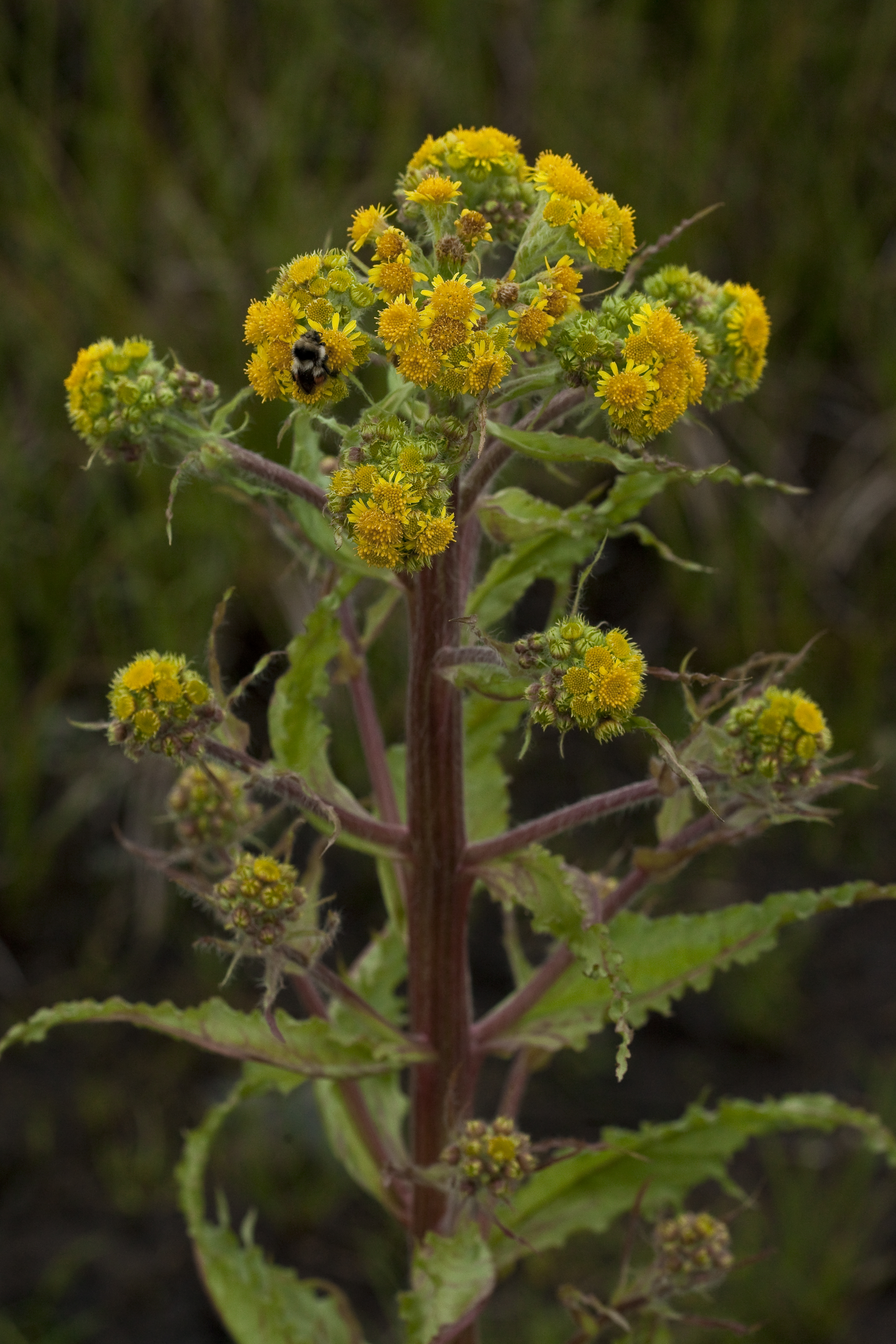 Senecio congestus, Denali National Park and Preserve, AK, USA